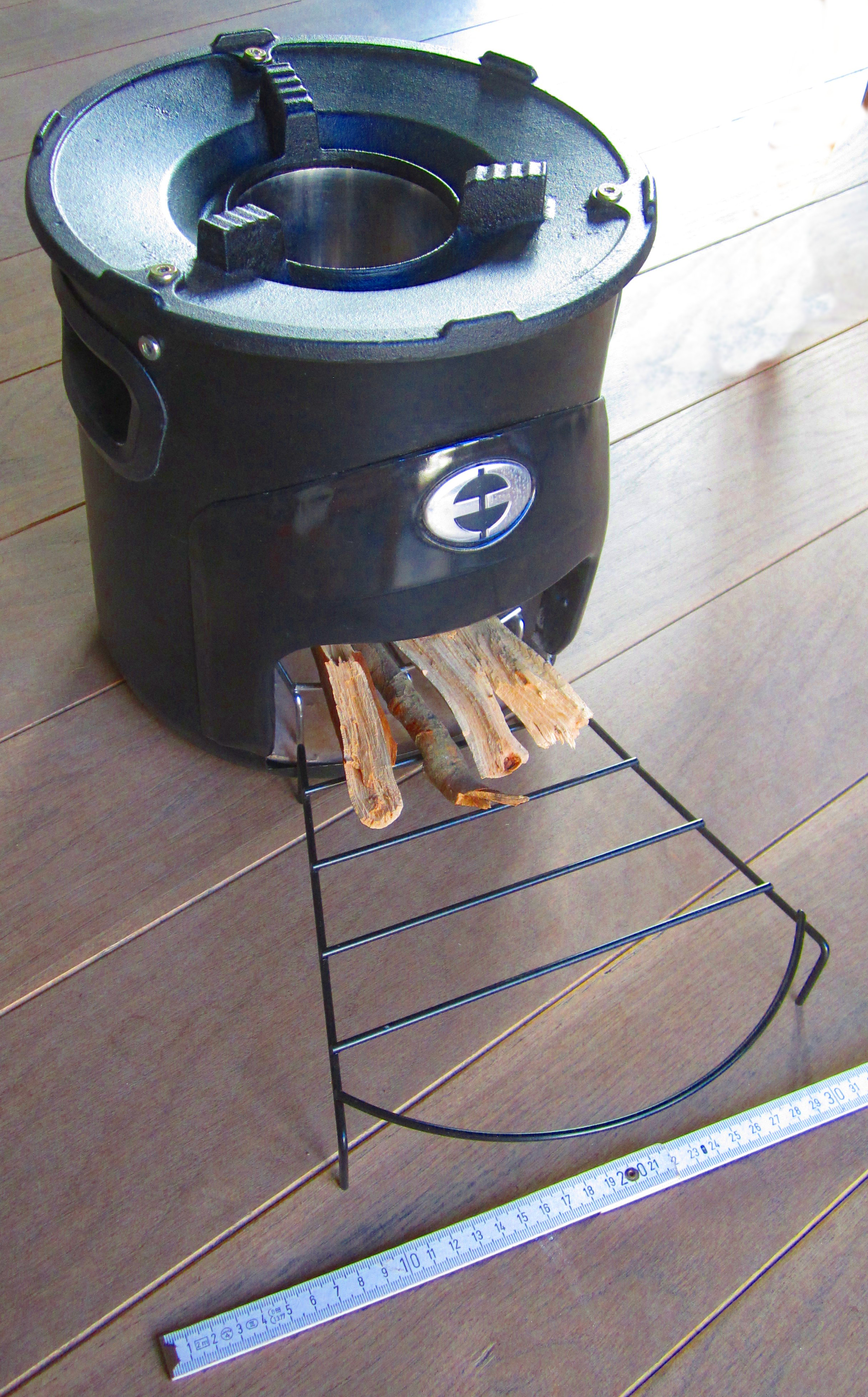 Rocket Stove Typ Envirofit G-3300, Scale in cm. Good Description of the function and special measures for a clean combustion can be found in the US-Patent US000008899222B2.